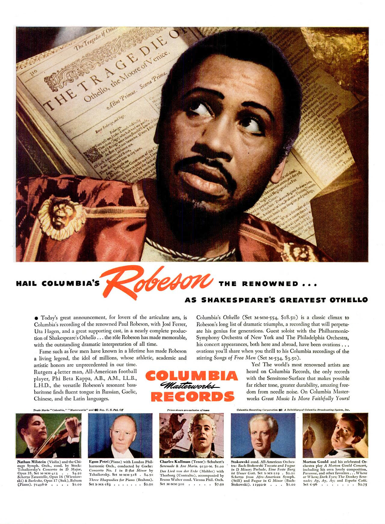 Advertisement for the Columbia Masterworks Records release of Othello, starring Paul Robeson, Uta Hagen and Jose Ferrer